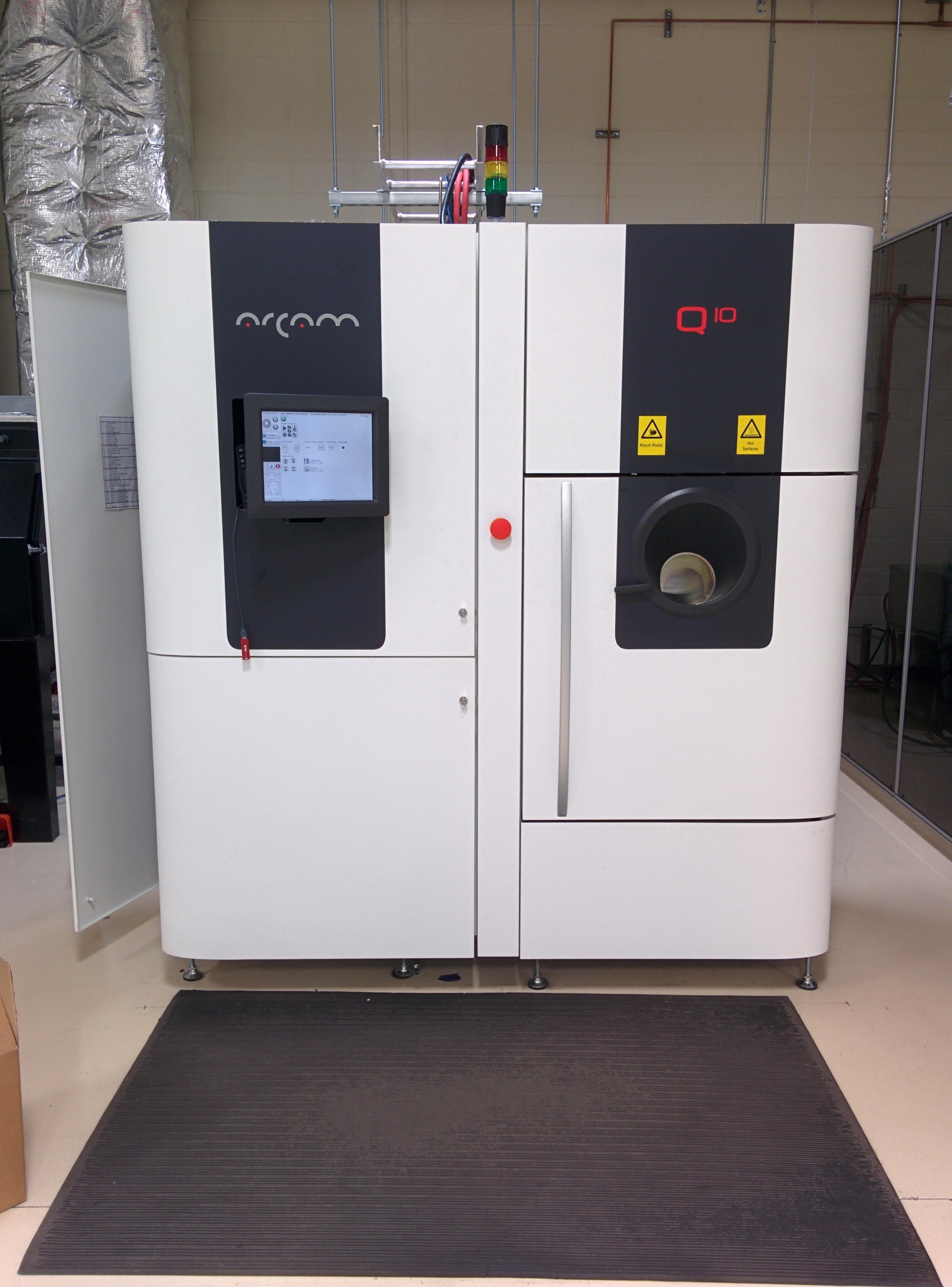 EBM machine focused on production.